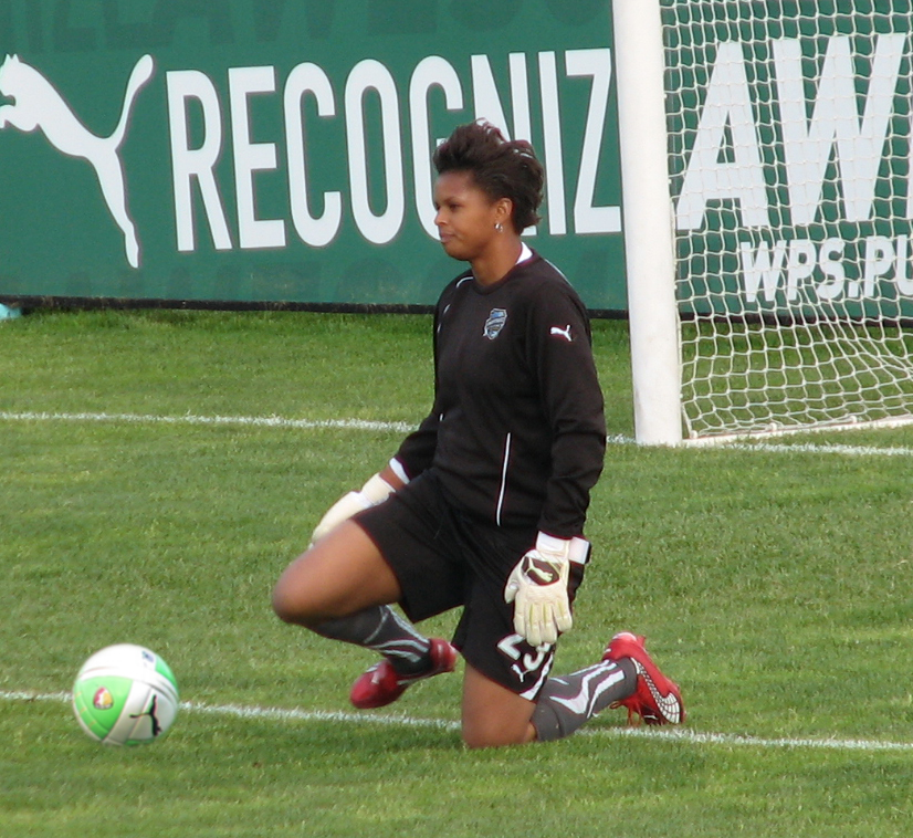 Karina LeBlanc of the WPS Philadelphia Independence.